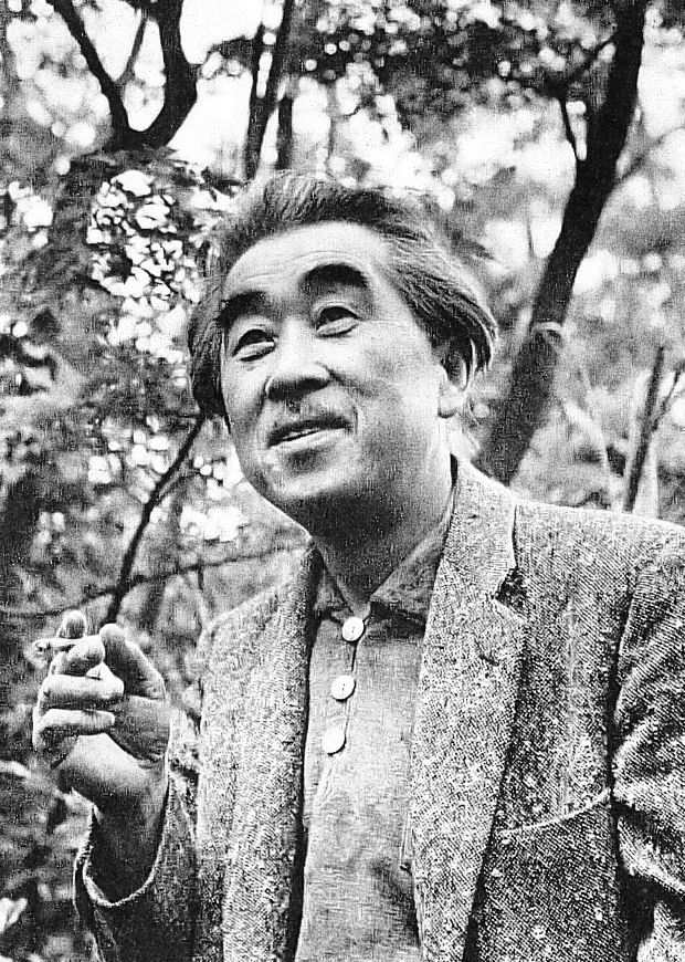 Junkichi Mukai